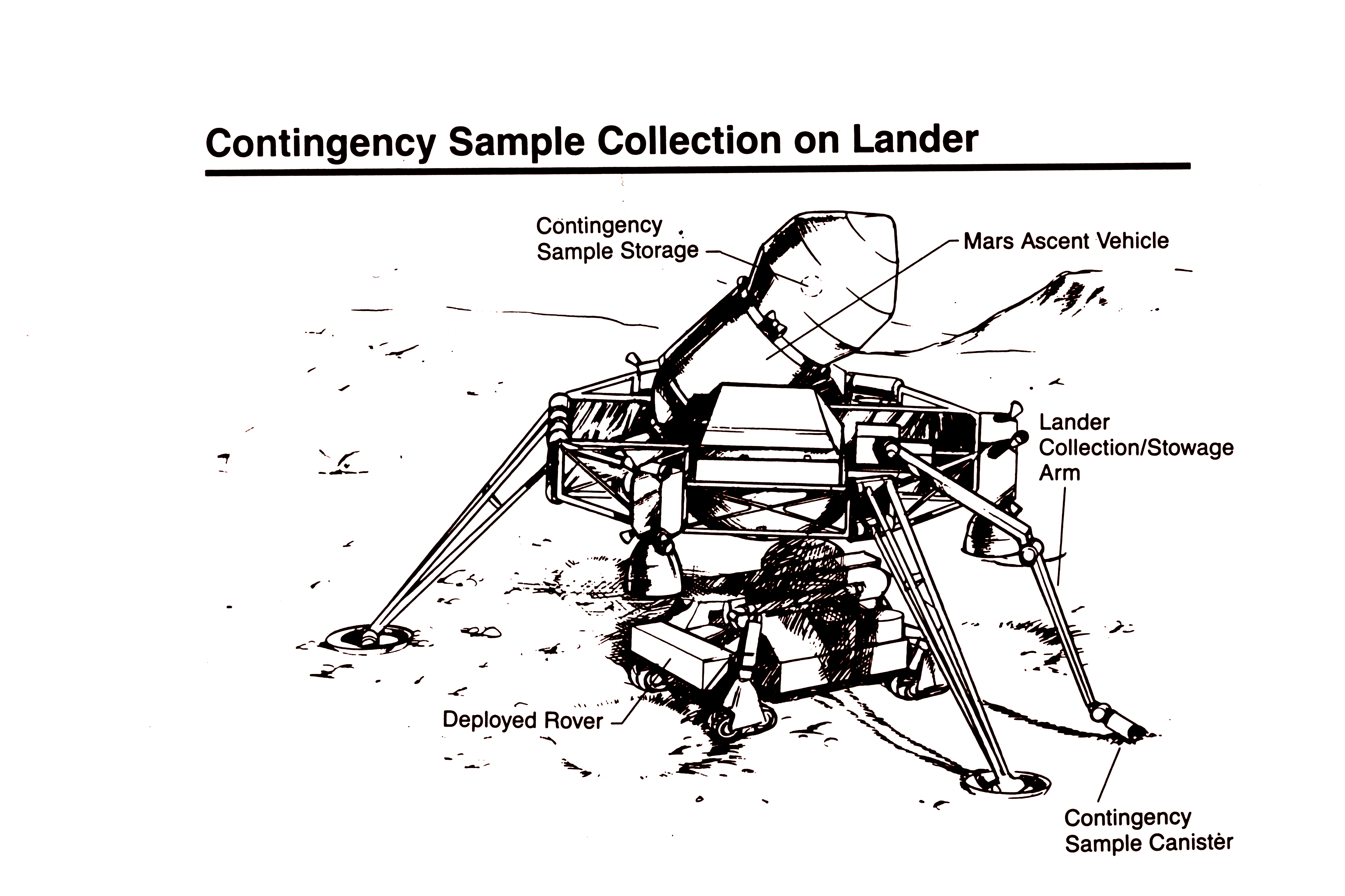 Exploration Imagery Series of black and white drawings for an aggressive unmanned exploration of Mars high res (3.3 M) low res (224 K) S87-29632 (March 18, 1987)--- This series of black and white drawings was done as a result of NASA's adoption of its Advisory Council's recommendation for an aggressive unmanned exploration of Mars. The returnable hardware program is planned as a precursor to a manned exploration of Mars in the next century. The Johnson Space Center in Houston and the Jet Propulsion Laboratory in Pasadena both have task teams outlining preliminary scenarios on how Mars sample-return missions could be flown using launch vehicles expected to be available late in the 1990s. If approved and funded, the Mars-bound spacecraft would be launched in 1998 and return with martian soil, rock and atmosphere samples in the year 2001. The current rover technology includes a stereo camera vision system, sensors, a computer brain, controlled manipulators and a drill system for acquiring samples. The proposed vehicle would have a mass of no more than 700 kilograms (1,540 pounds), be six meters long and two meters across.